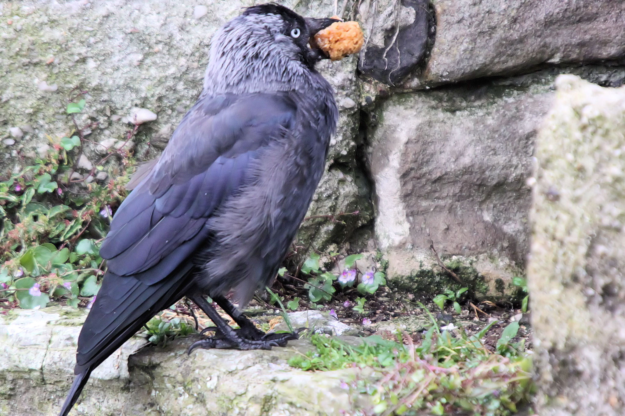 Jackdaw - Beaumaris Castle Anglesey August 2009